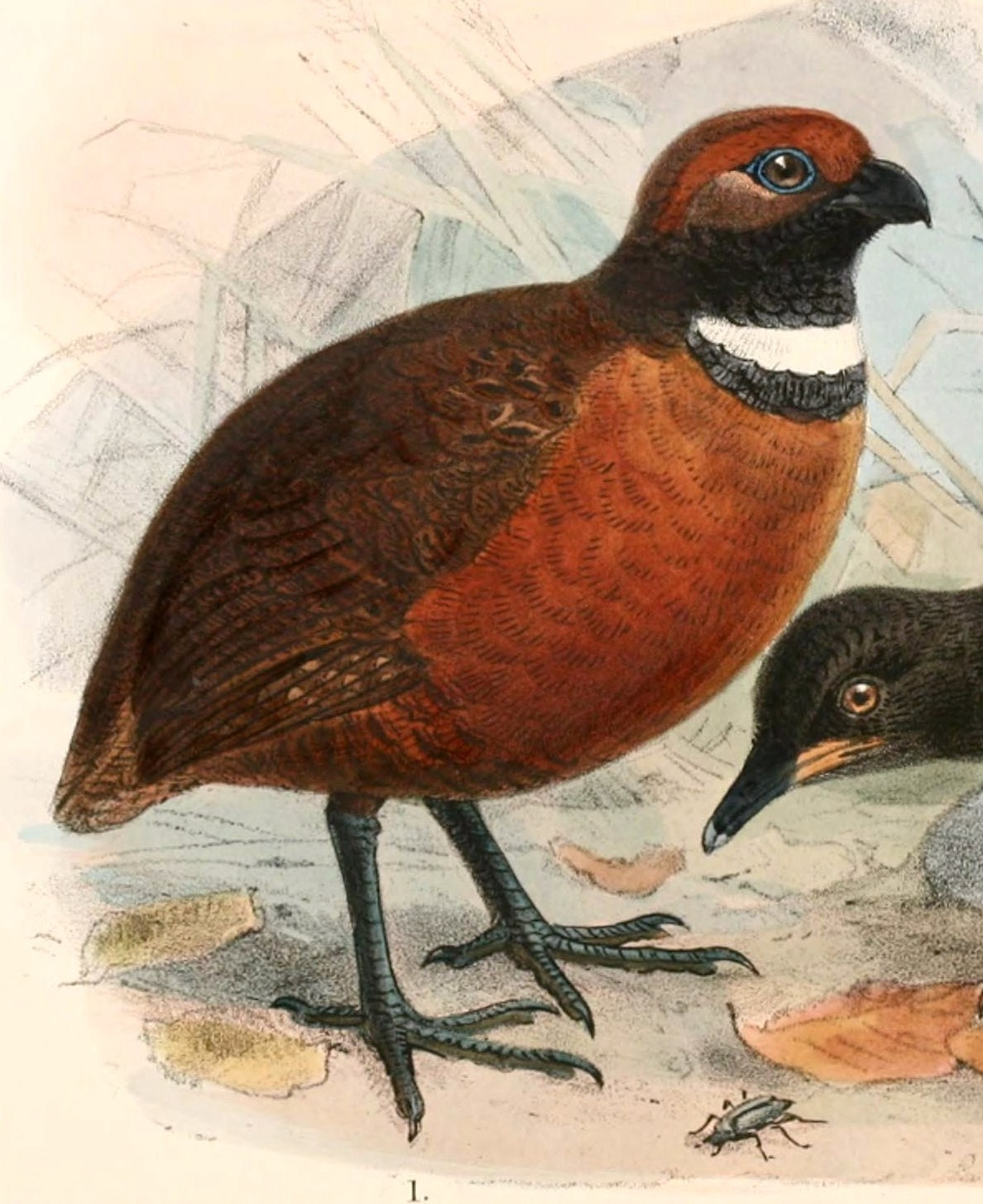 « Odontophorus parambae » = Odontophorus erythrops parambae (Subspecies of Rufous-fronted Wood Quail)